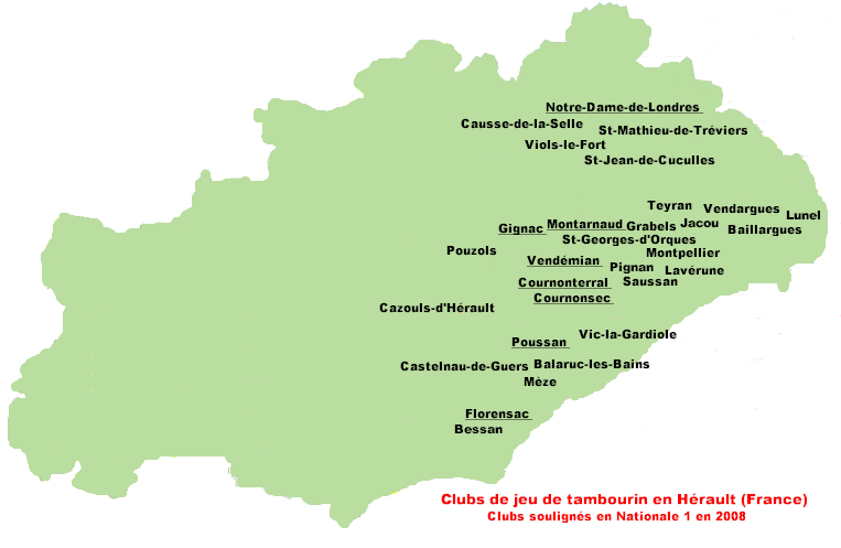 Map of the tamburello clubs in Hérault (France)